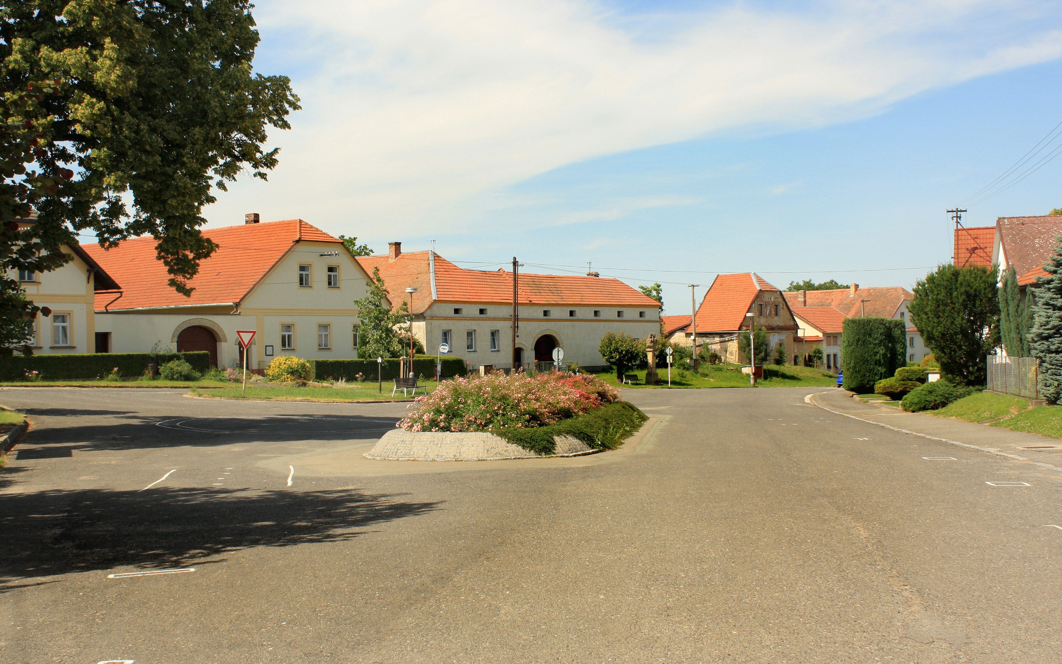 Common in Morašice, Czech Republic